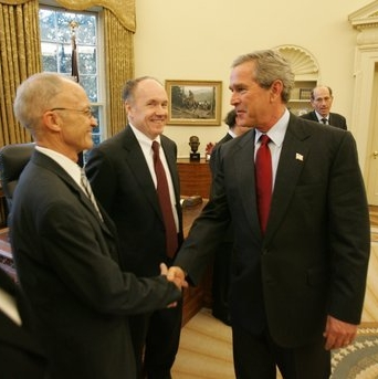 White House photo cropped by uploader. Original caption: "President George W. Bush greets Dr. Finn Kydland during a ceremony honoring the 2004 Nobel Laureates in the Oval Office Wednesday, Dec. 1, 2004. Dr. Kydland received the Nobel Prize in Economics for his analyzation of the driving forces behind business cycles has influenced the practice of economic and monetary policy.White House photo by Tina Hager"